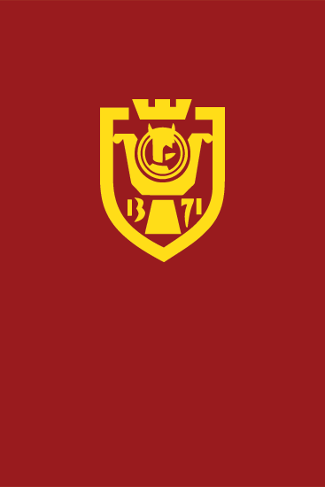 Pseudo-heraldic flag of Kurševac